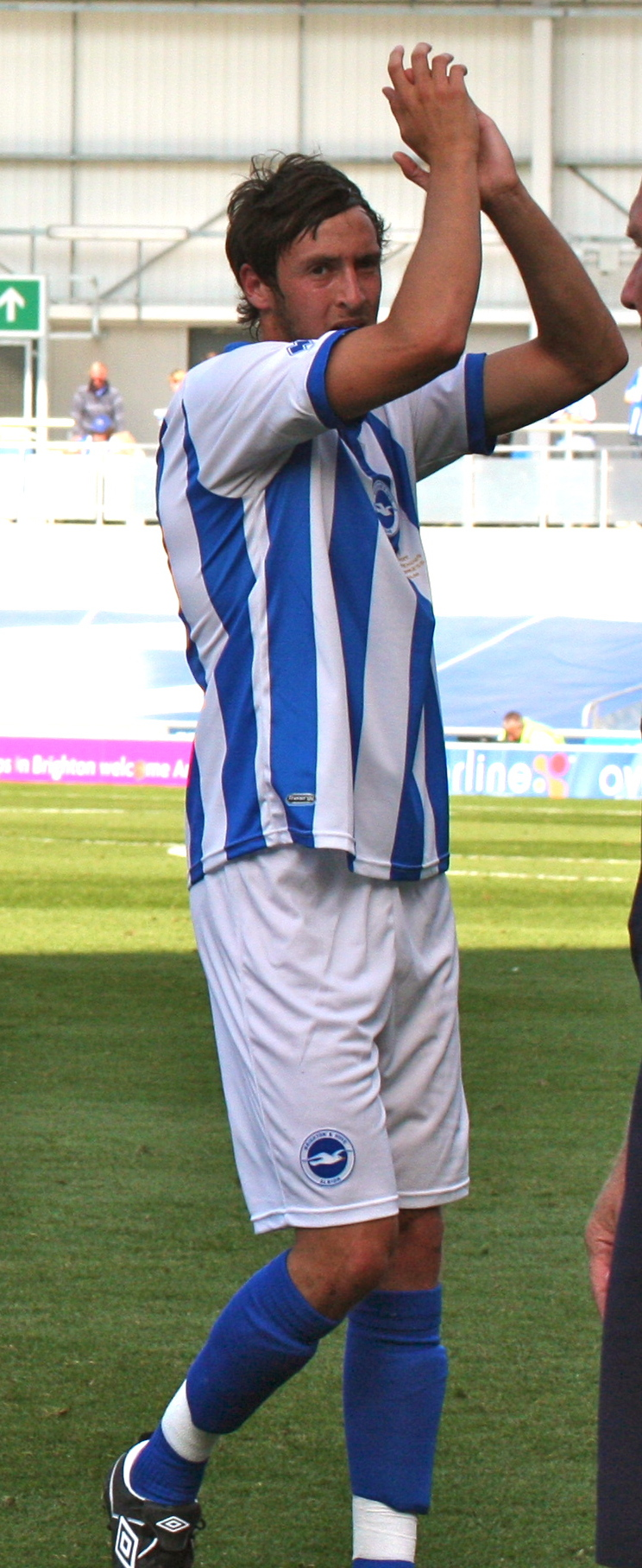 Brighton v Spurs Amex Opening 30/7/11